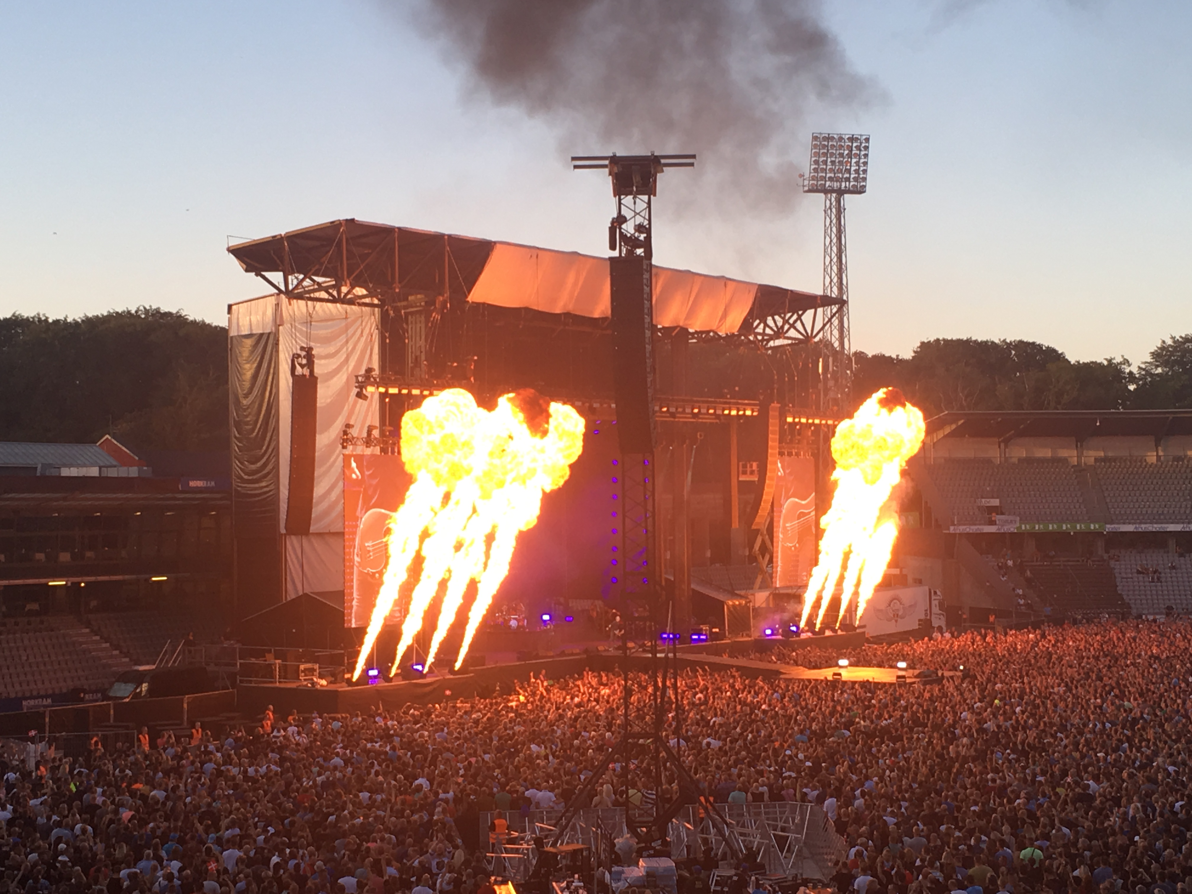 Volbeat concert 29th of June 2019 at Ceres Park, Aarhus, Denmark